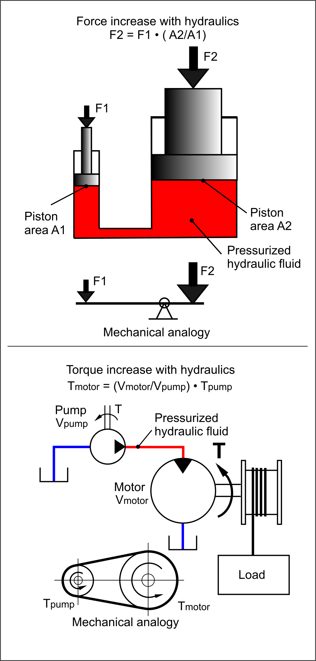 Hydraulic force and torque ratio principle compared mechanical analogies.